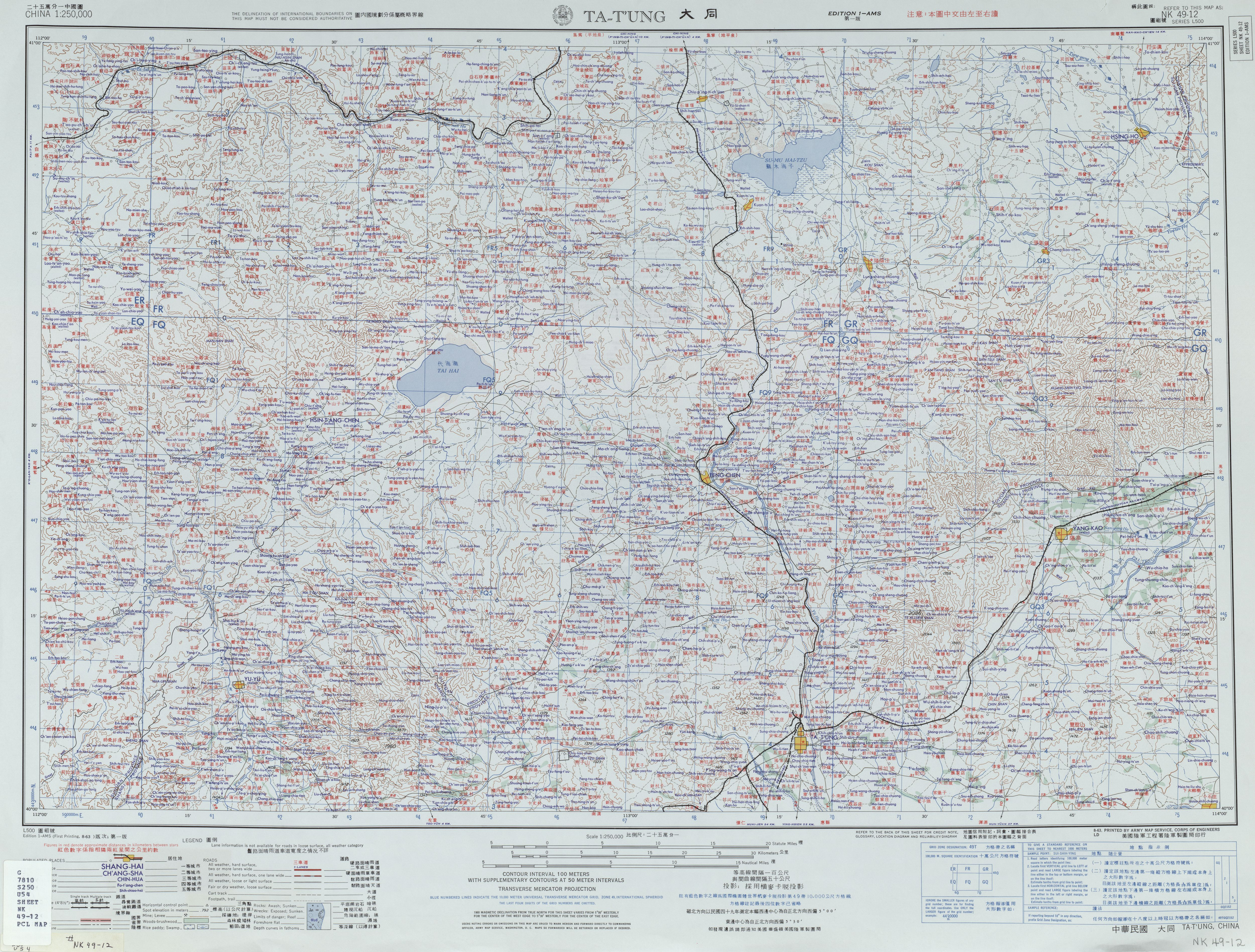 China AMS Topographic Maps